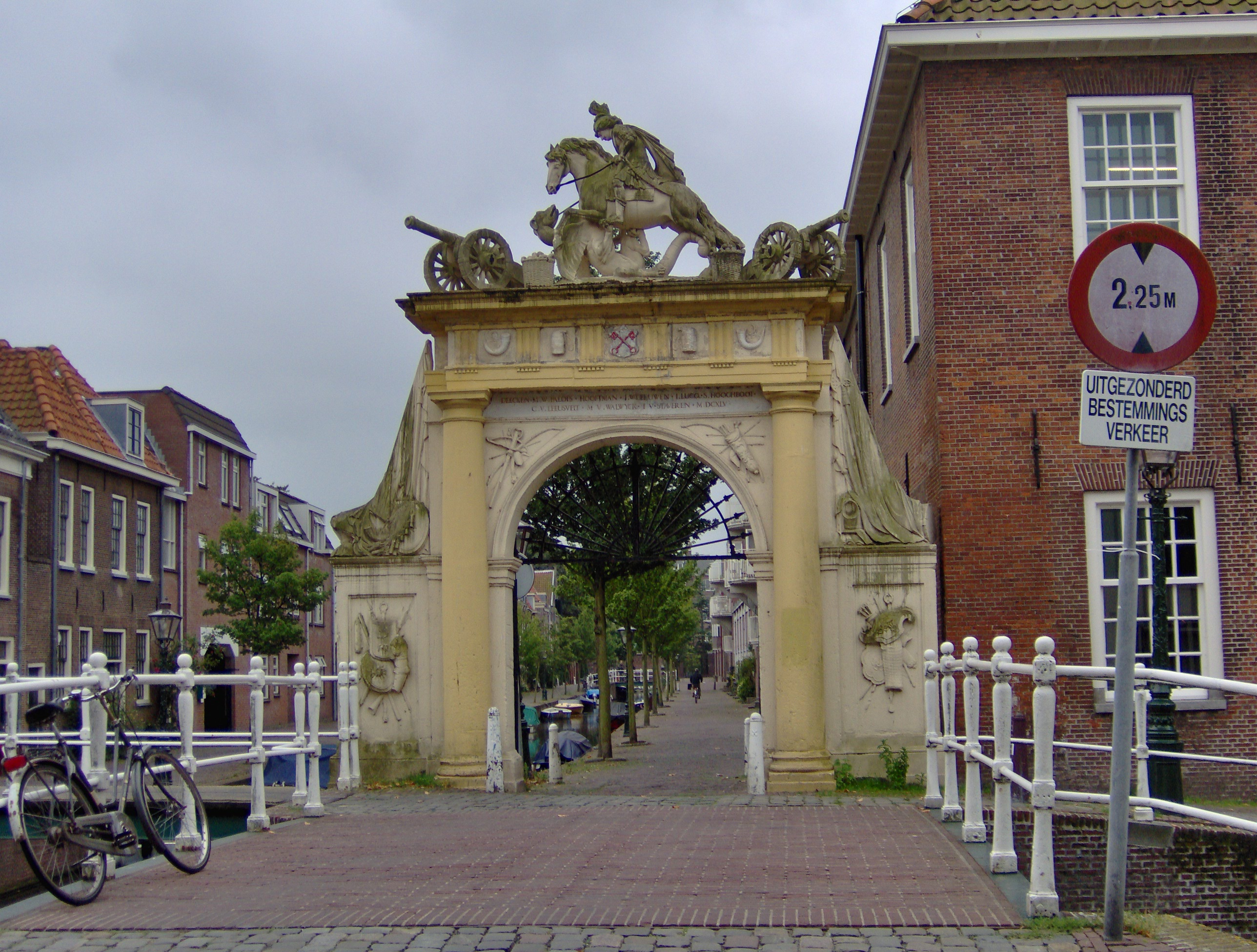 The Doelenpoort in Leiden, The Netherlands